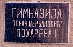 A sign with the old name of the Požarevac Gymnasium in 1996. This photo was used in the following places